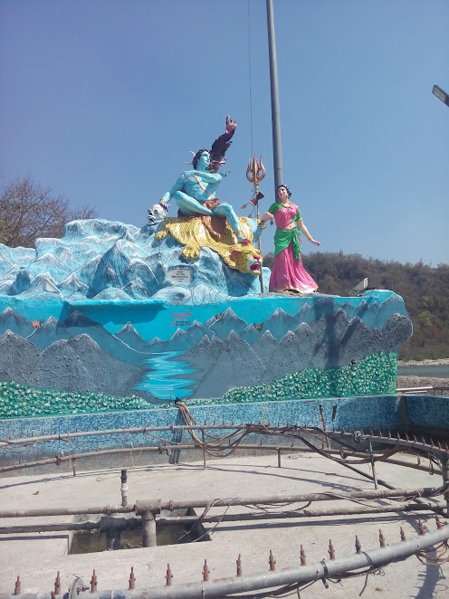 Triveni Ghat Statue of Devo ki Dev Mahadev and our mother Mata Parvati.